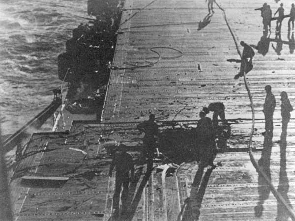 Crewmen of the U.S. Navy aircraft carrier USS Enterprise (CV-6) inspect and begin to repair the damage from the third bomb to hit the flight deck during Battle of the Eastern Solomons on 24 August 1942.